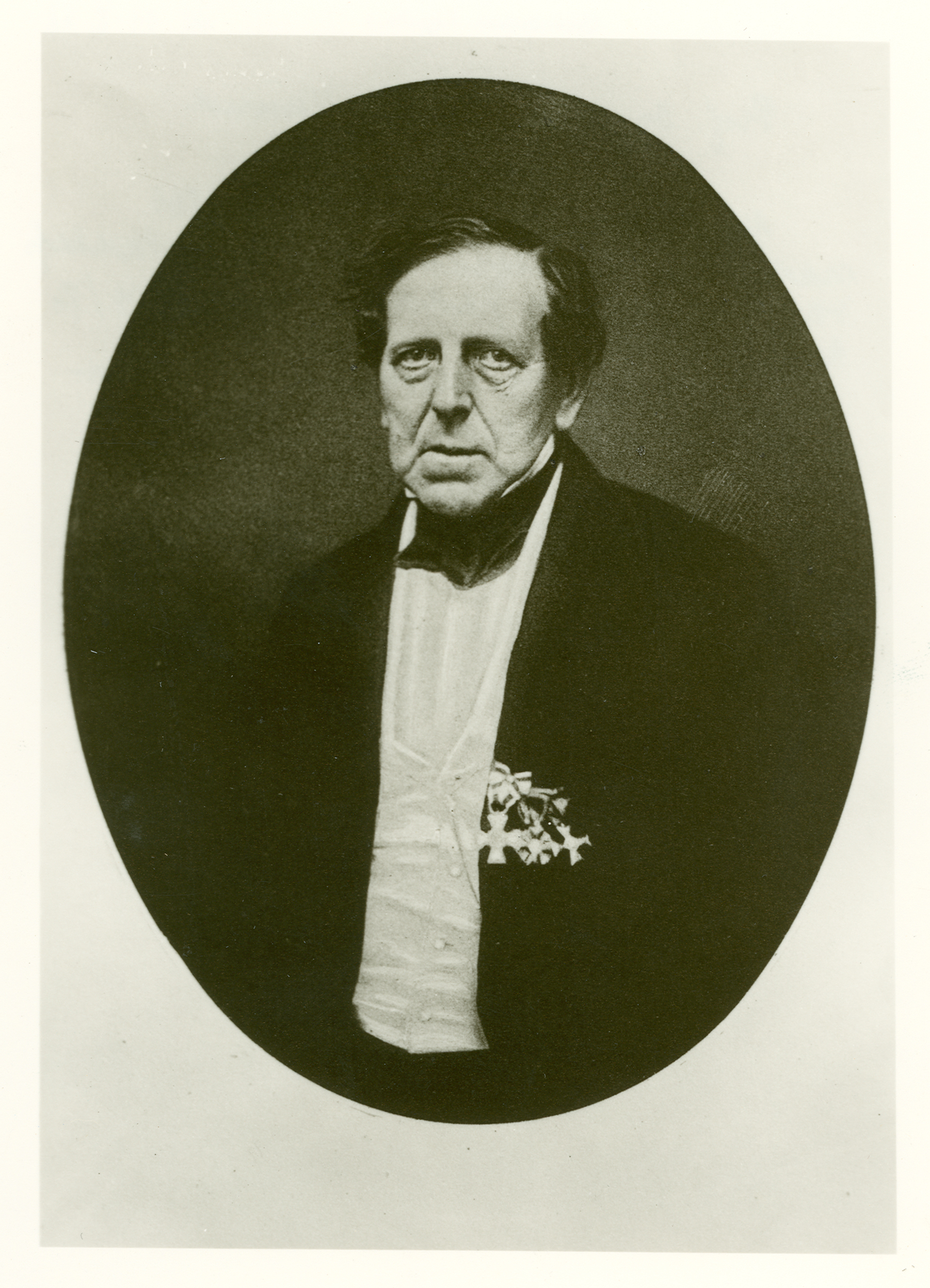 Martin Rathke portrait